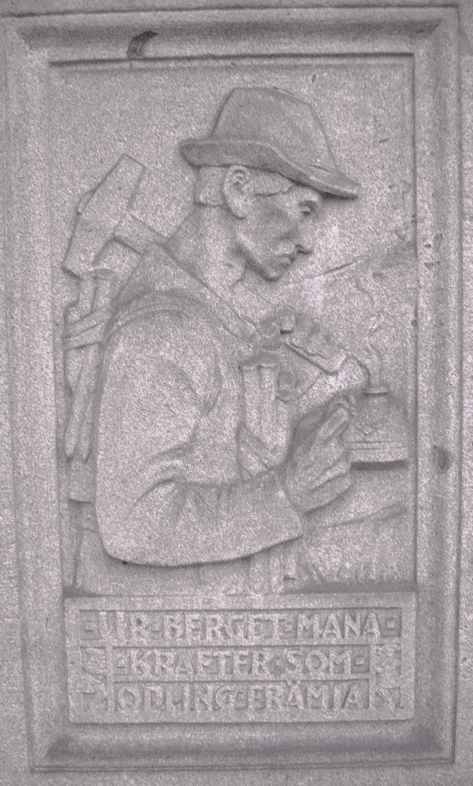 Picture of detail on Nordiska museet depicting mining